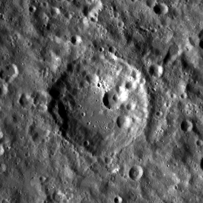 LROC . Konstantinov lies on top of the battered Mare Moscoviense ejecta blanket.